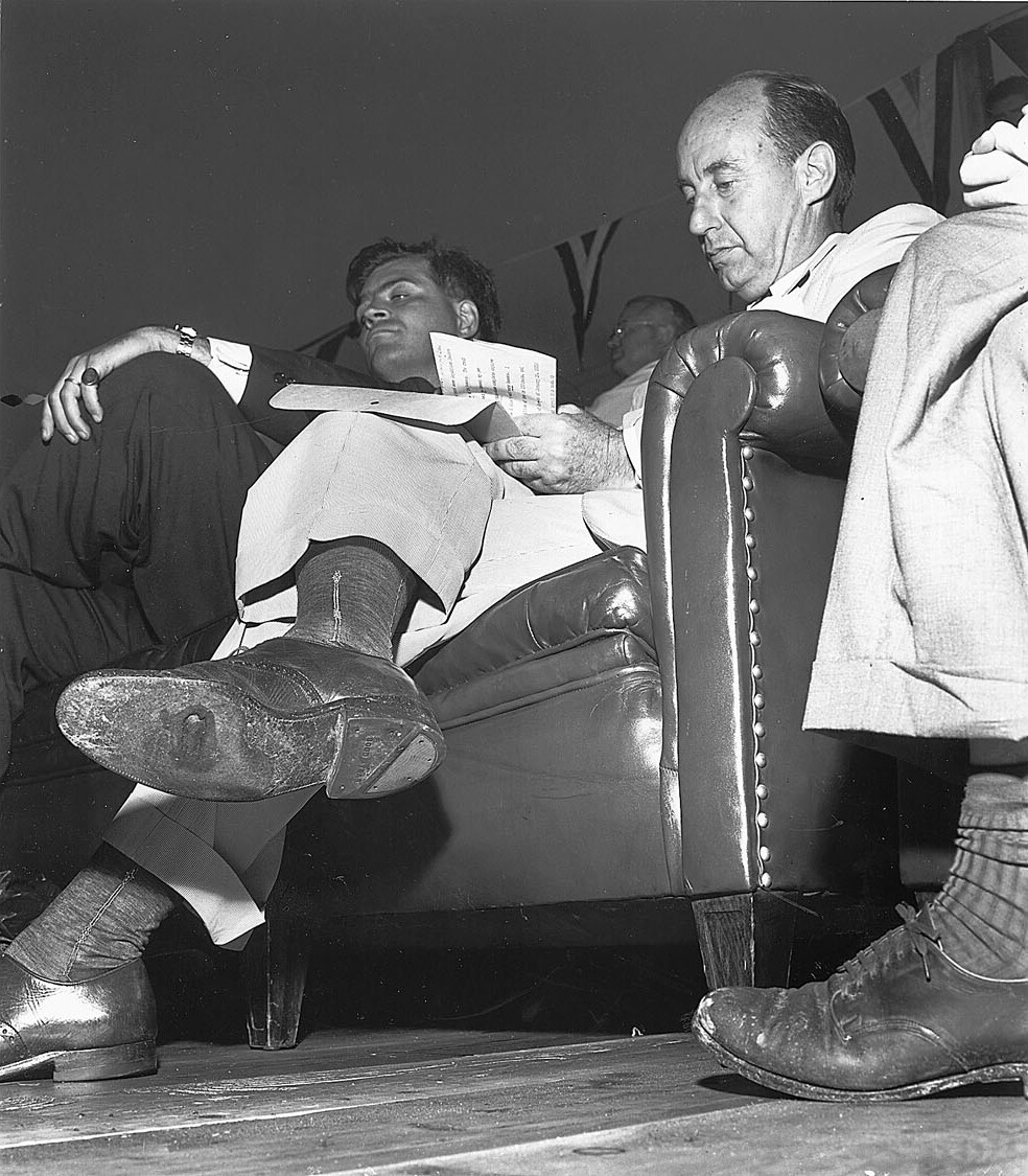 "Adlai Bares His Sole", also known as "Adlai's Worn Sole", photograph of Adlai Stevenson at a campaign appearance in Flint, Michigan during the 1952 U.S. presidential campaign with a hole worn through his shoe. This photograph won the 1953 Pulitzer Prize for Photography. G. Mennen Williams sits behind Stevenson.